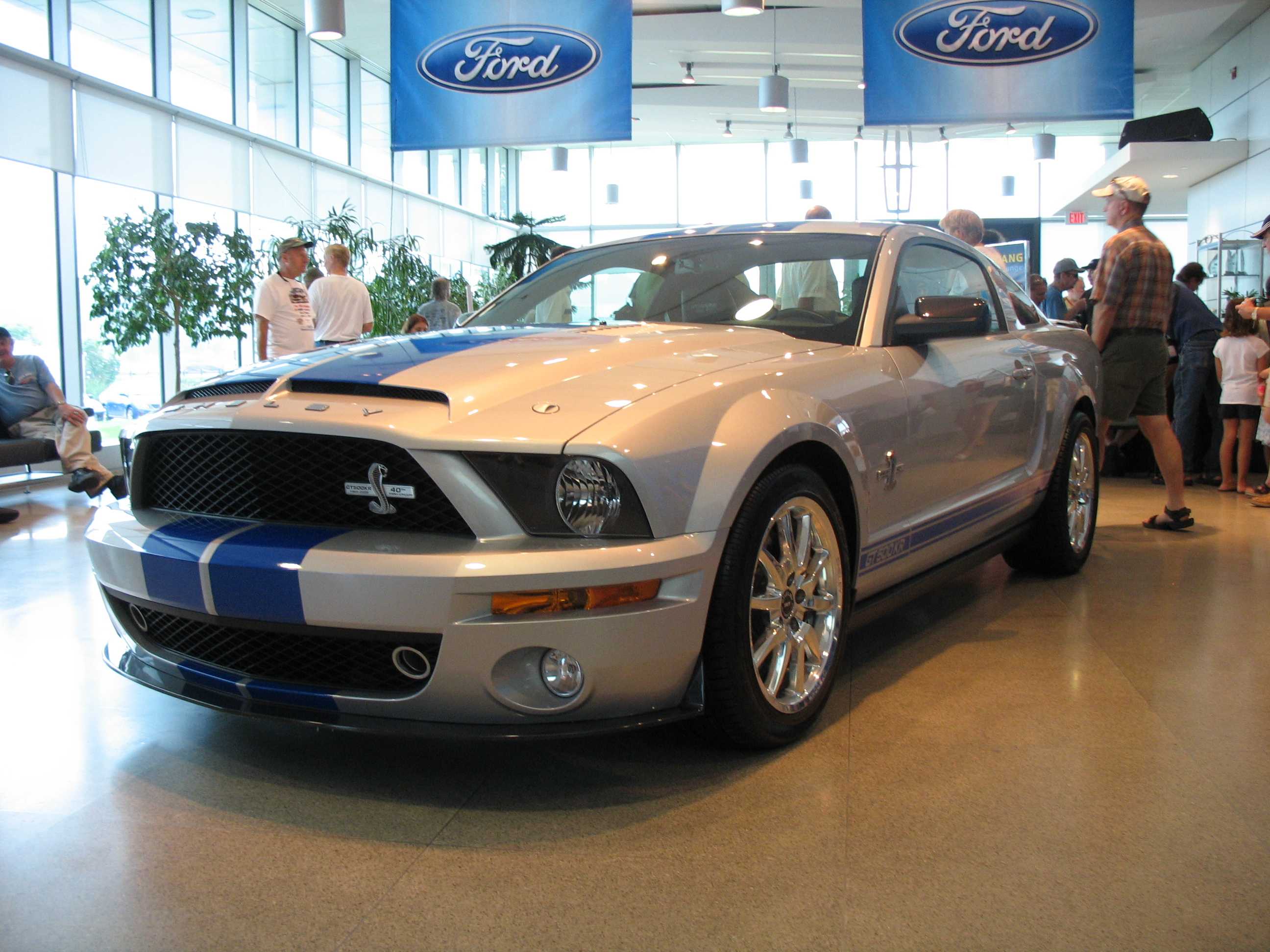 Production 2008 Shelby Mustang GT500KR- Ford of Canada Headquarters